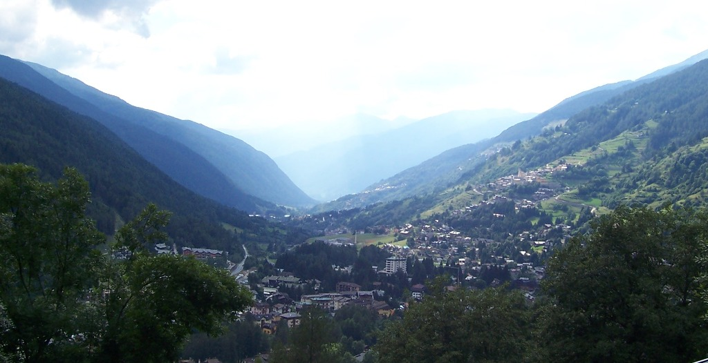 Ponte di Legno, Val Camonica